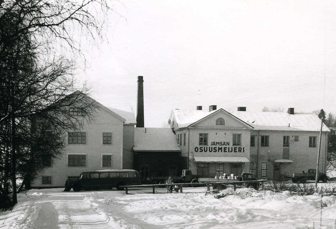 Dairy and mill in Jämsä, Finland in 1955